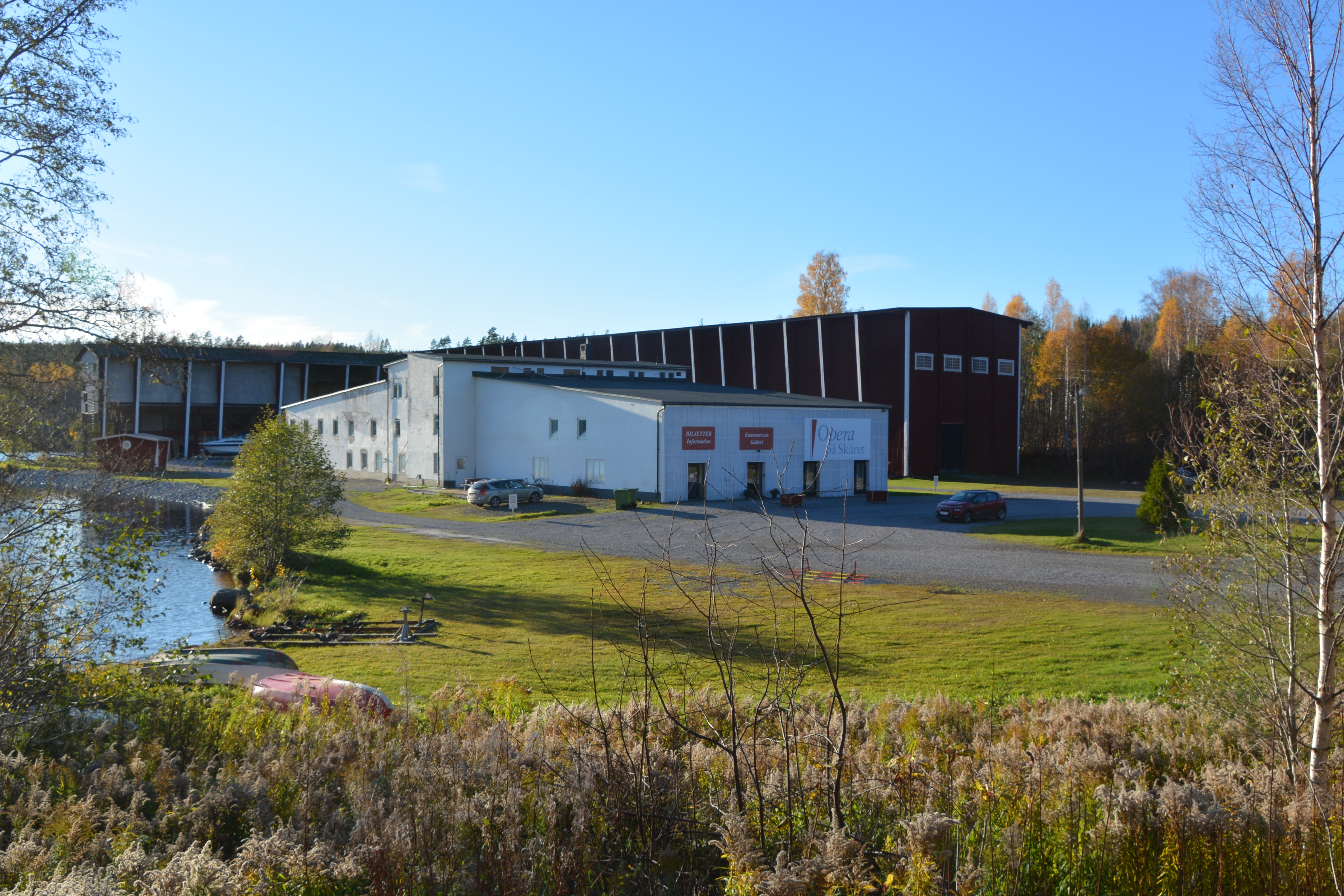 Opera på Skäret